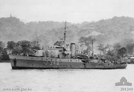 Australian minsweeper HMAS Stawell during 1944.